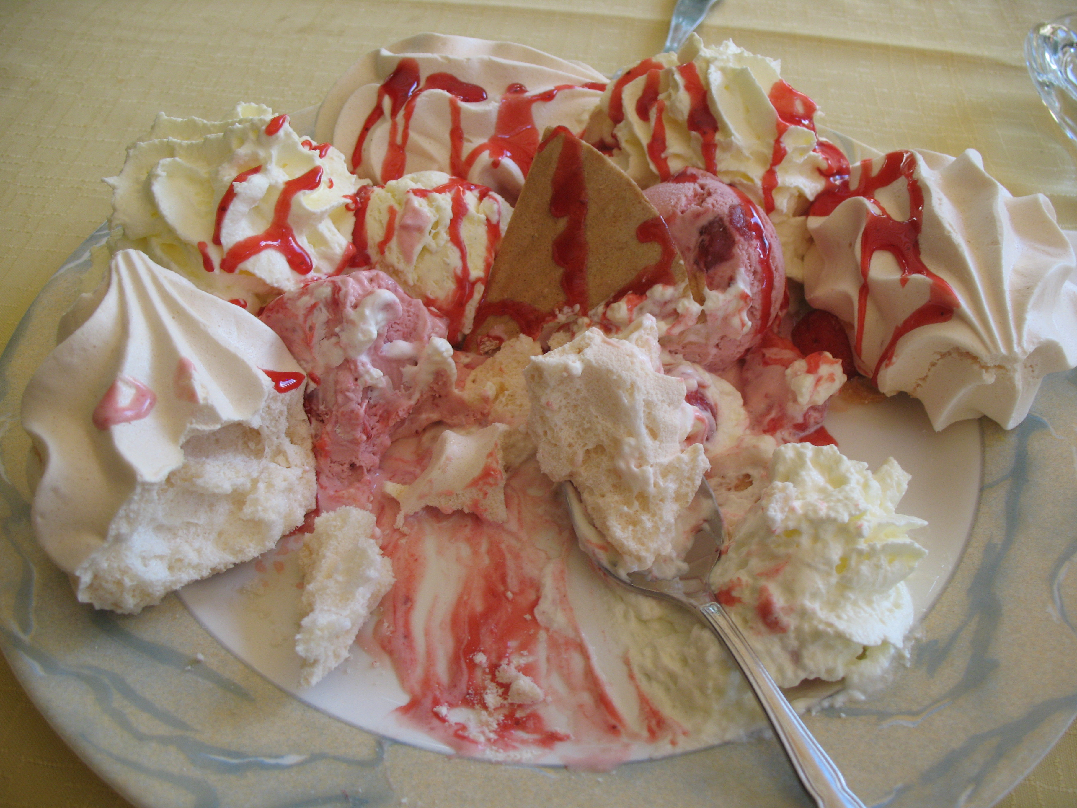 Meringue at the Restaurant Da Ernesto - MostroLuzern, Meiringen, Switzerland